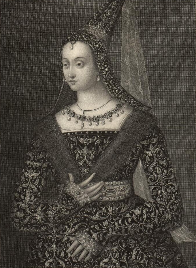 A portrait from the Welsh Portrait Collection at the National Library of Wales. Depicted person: Margaret Stewart – Dauphine of France